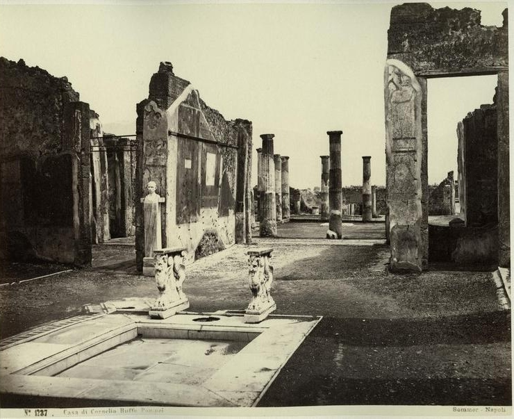 Giorgio Sommer (1834-1914), "Pompeii. House of Cornelius Rufus". Catalogue #: 1237.